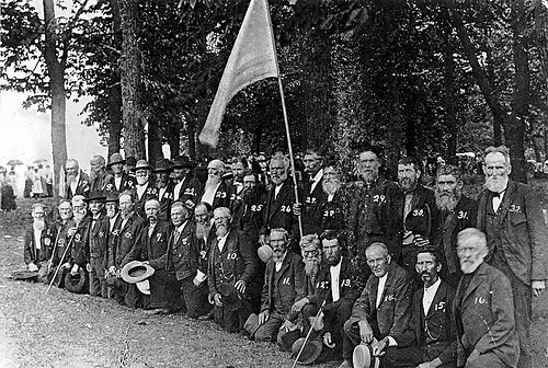 Veterans of the Confederacy, July 4, 1900, Patrick County, Virginia (retouched by MarmadukePercy).